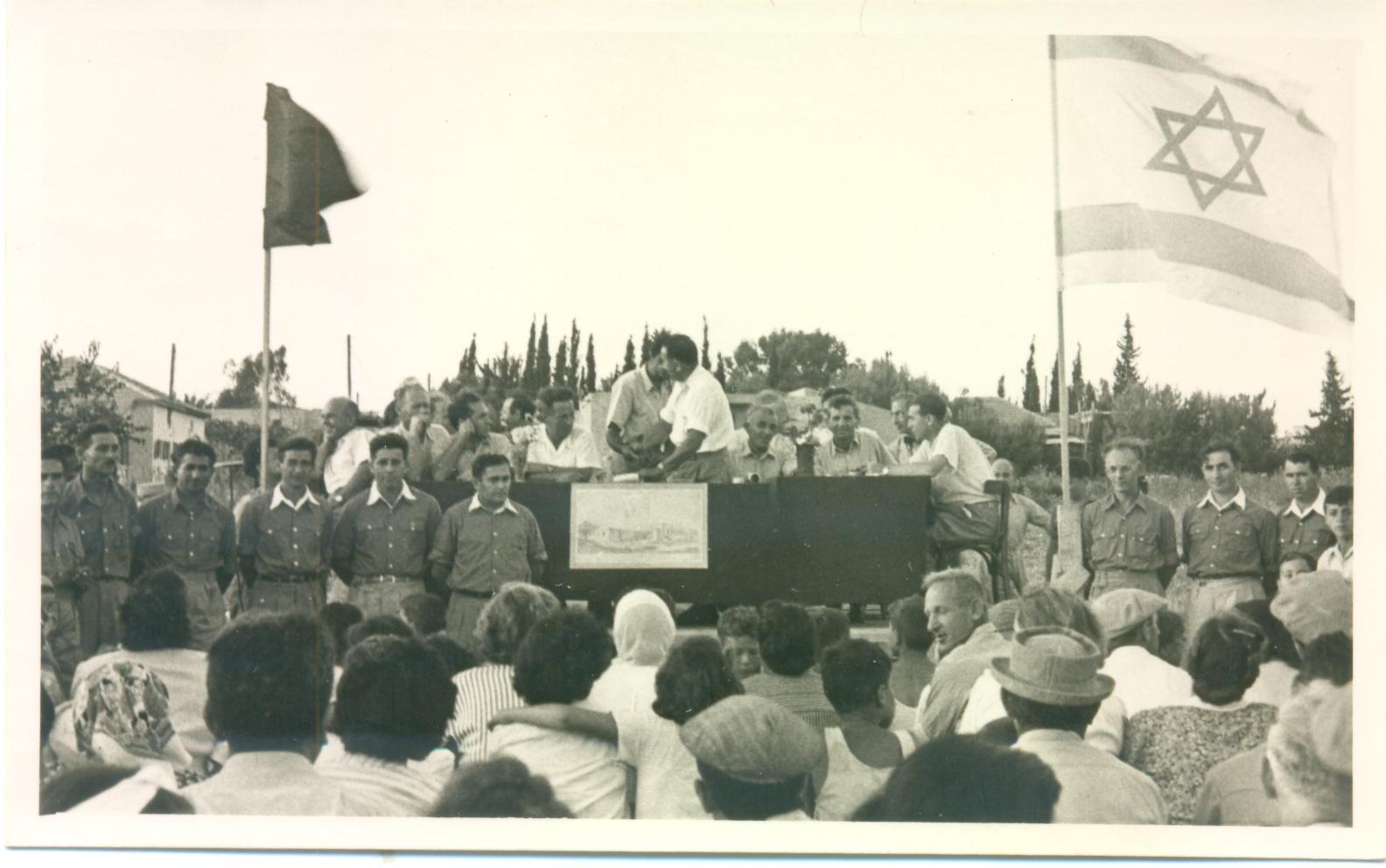 Events in Israel